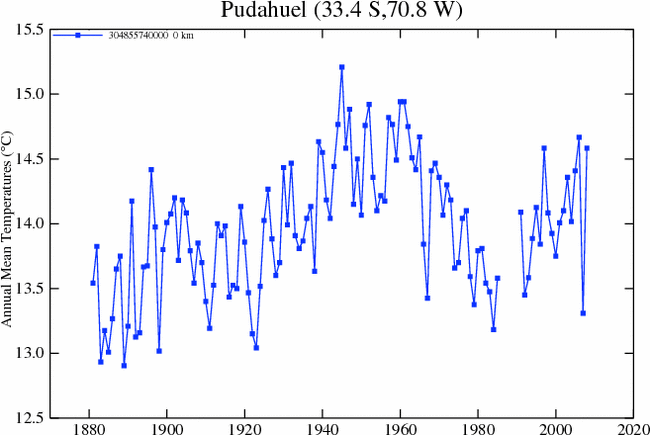 Graph of air average temperatures 1903 2007 city of Pudahuel, Chile